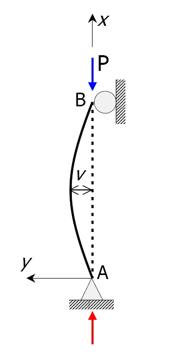 a simply supported column